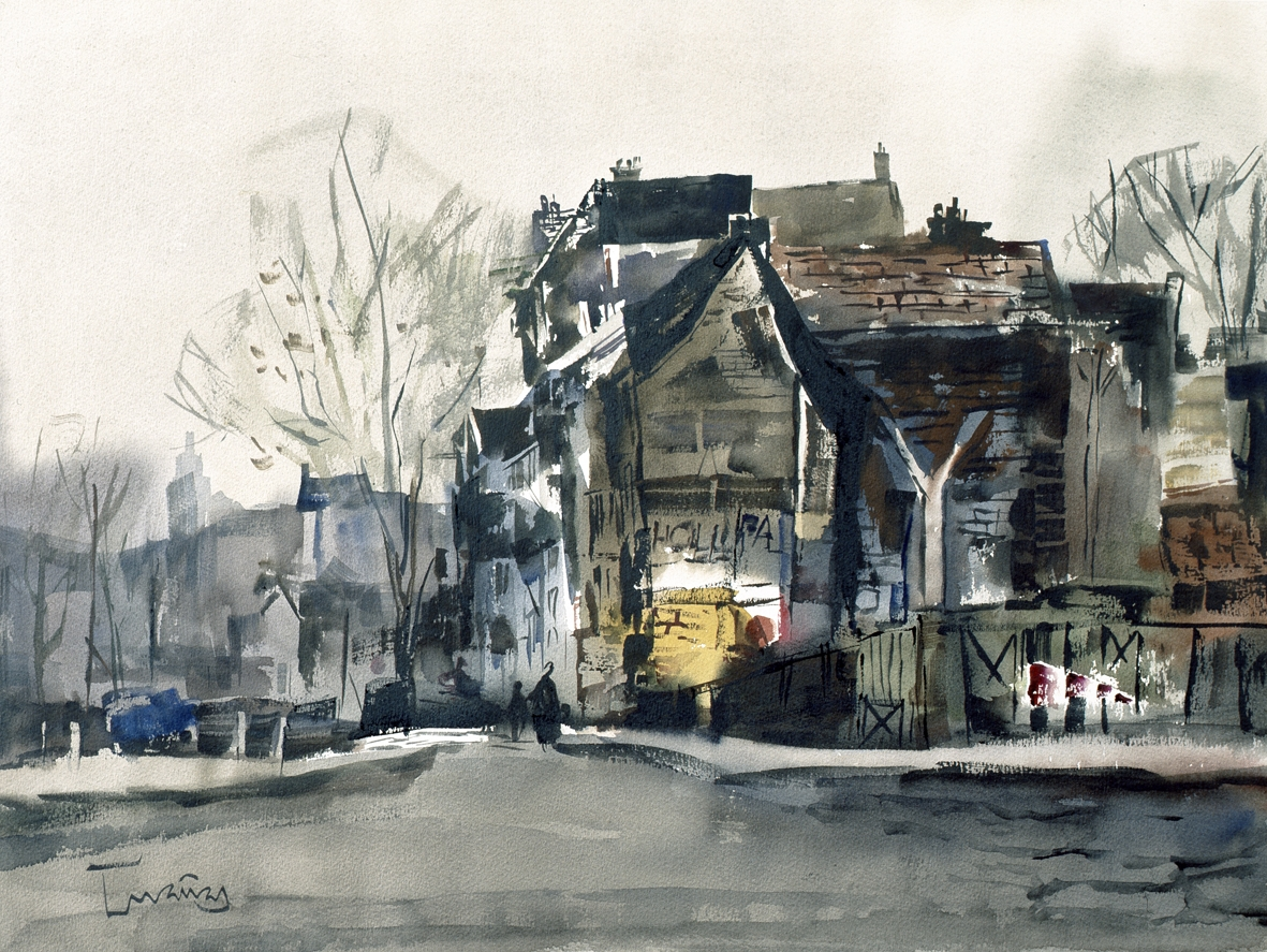 Amsterdam, watercolor by Josep Cruañas